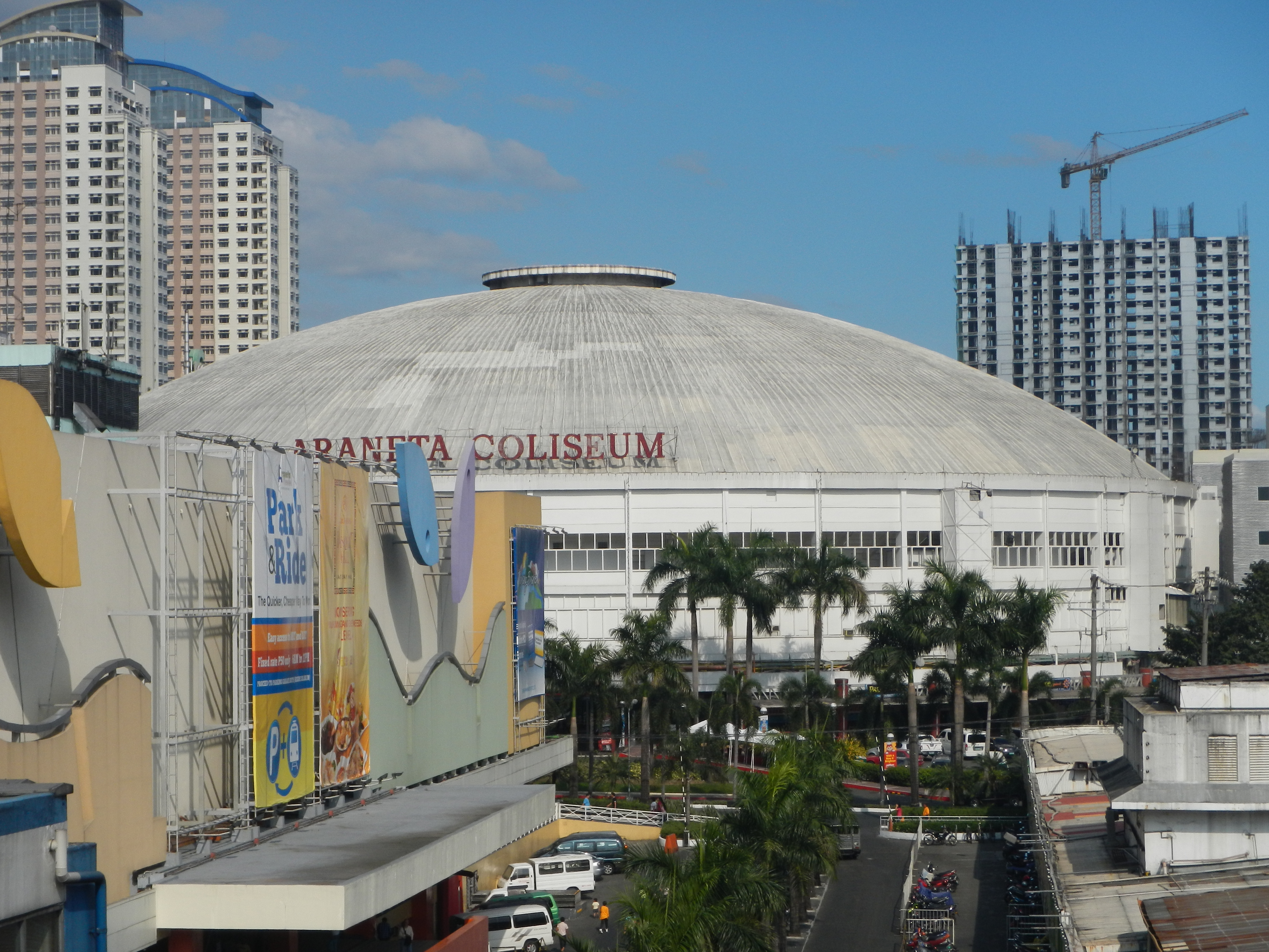 Upload Wizard photos of -- (general description of landmarks, town, church) - Smart Araneta Coliseum[1] at Araneta Center, Cubao, Quezon City [2] [3] and TriNoma [4] is located on a 20-hectare parcel of land, gross leasable area of 195,000 square meters, which includes the mall's major anchor, The Landmark Supermarket and Department Store at Epifanio de los Santos Avenue corner North Avenue, Bagong Pag-asa, Quezon City, Philippines.